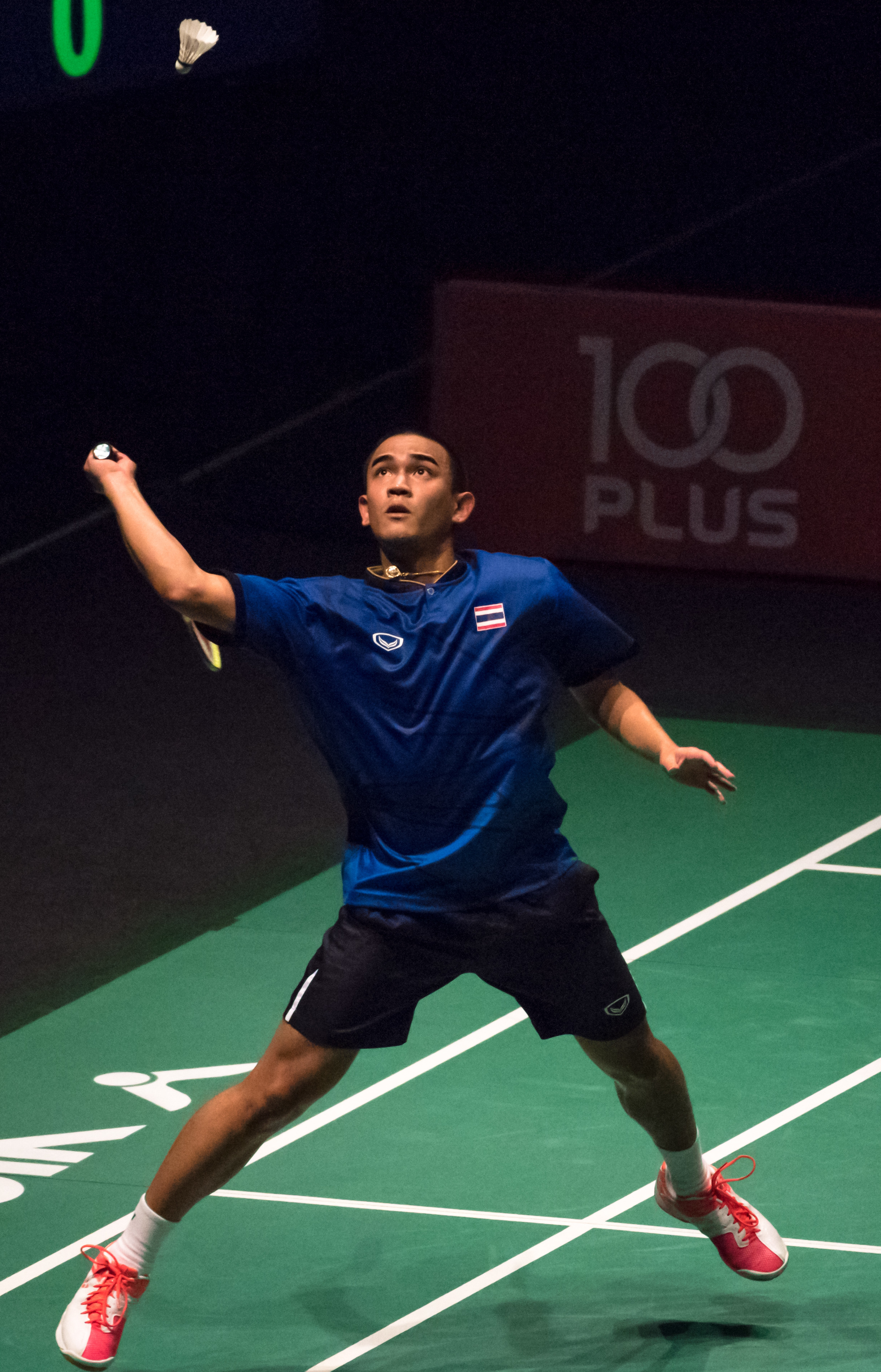 Sea Games Badmintion Final